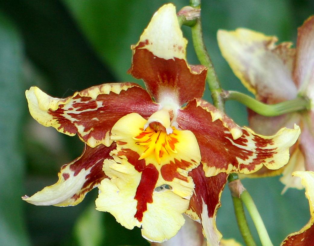 Self made image of an Orchid flower.